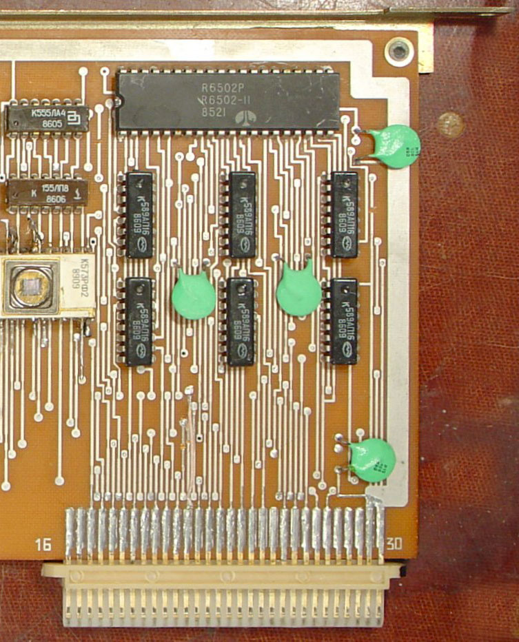 Agat Computer CPU & slot